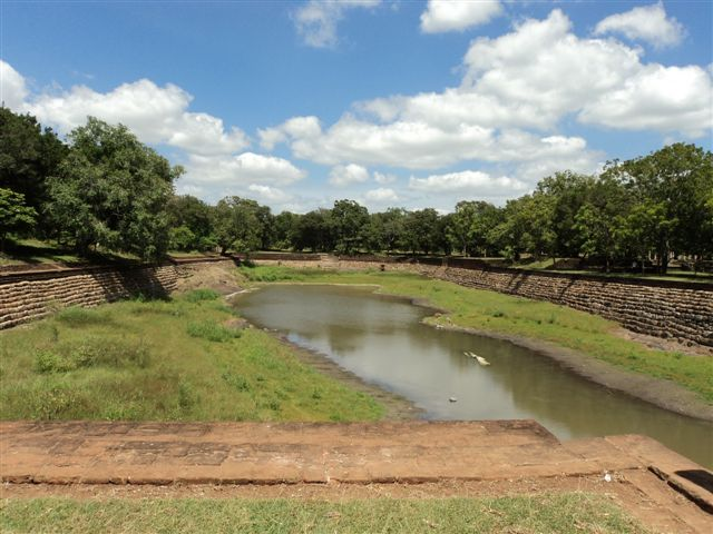 Eth Pokuna (Elephant Bath) in Anuradhapuraya, Sri Lanka